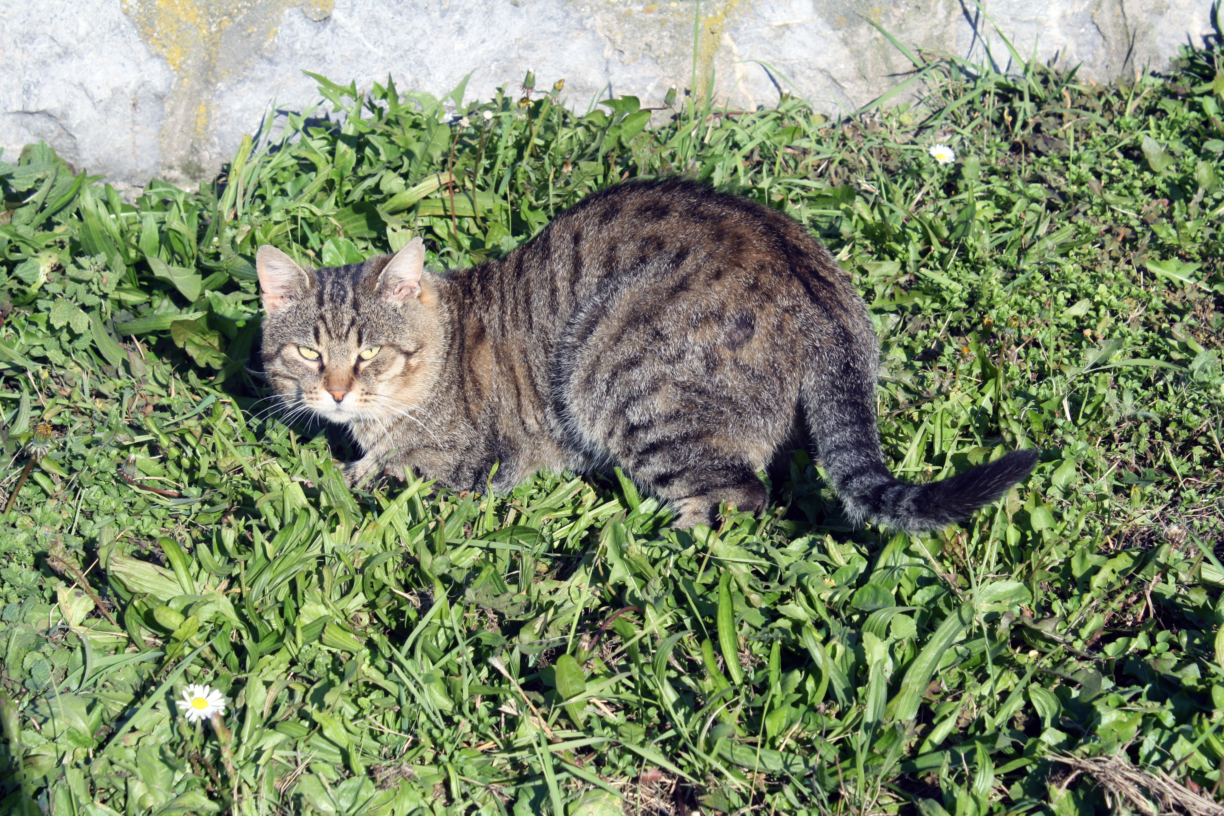 Cat in Šabac.